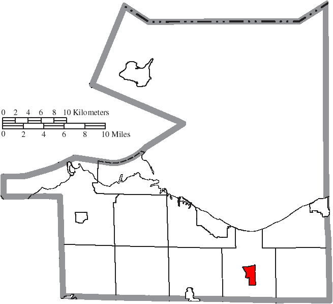 Map of the municipal and township boundaries of Erie County, Ohio, United States, as of the 2000 census, with the location of the village of Berlin Heights highlighted. Township borders are shown only in unincorporated areas in order to differentiate incorporated and unincorporated areas more clearly.